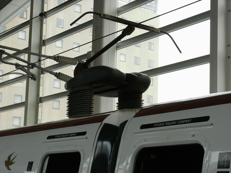 Pantograph of Kyushu Shinkansen Series 800